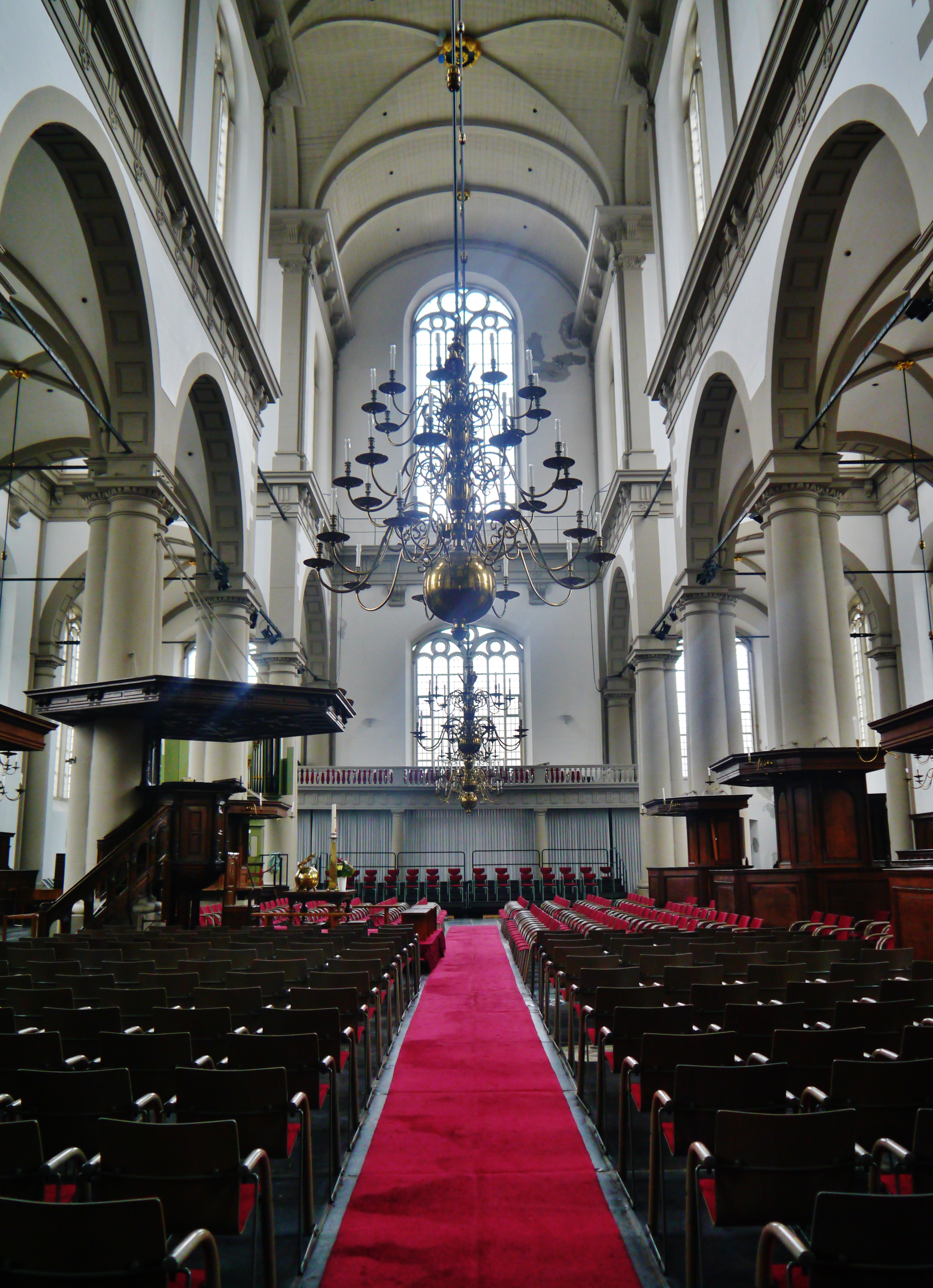 Nave of the West Church, Amsterdam, Province of North Holland, Netherlands